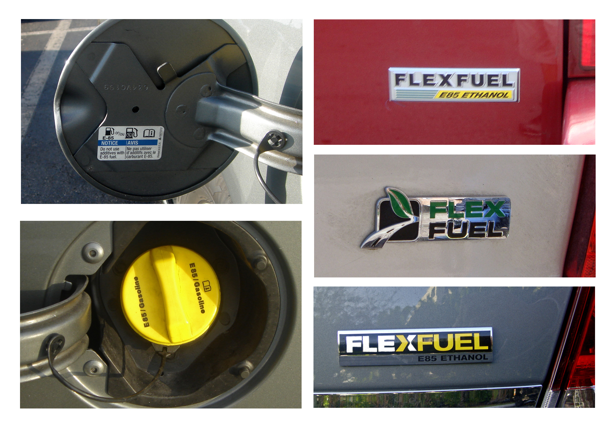 E85 sticker in the back of the fuel filler door (left top) + E85 bright yellow gas cap (left bottom) + Three typical U.S. commercial E85 flexible-fuel badges from Chrysler (top right) Ford (middle right) and GM (bottom right)